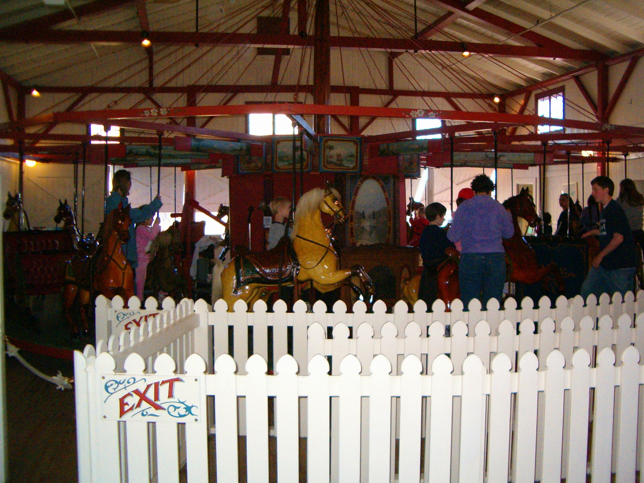 This image is of the Flying Horses Carousel, located in Oak Bluffs, Massachusetts. It is the oldest operating platform carousel in America.